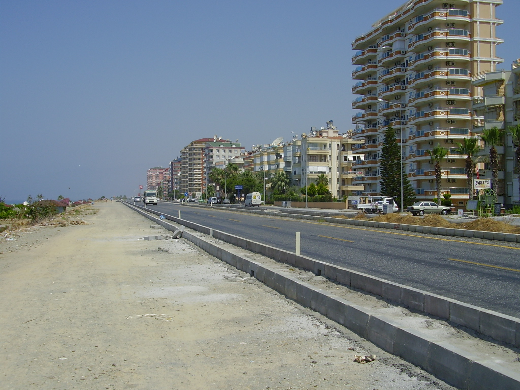 Mahmutlar